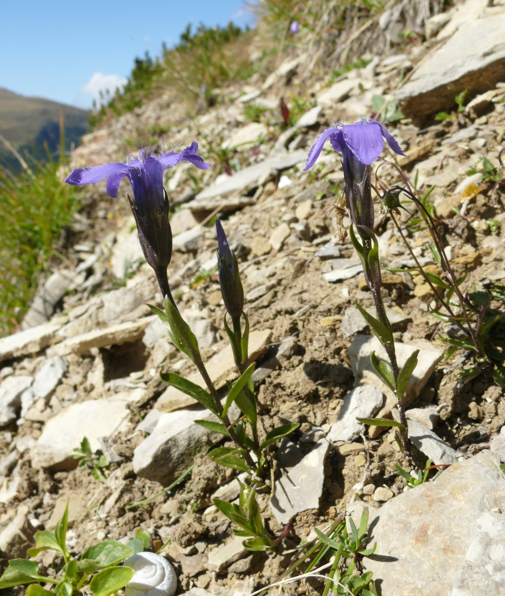 Gentianopsis ciliata, Naturpark Puez-Geisler, Italy